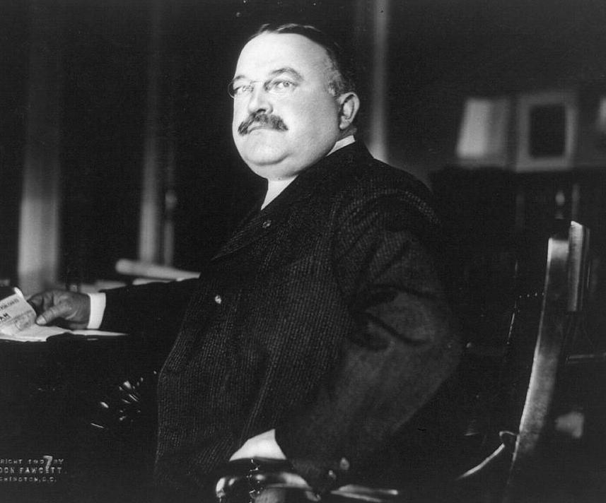 Truman Handy Newberry